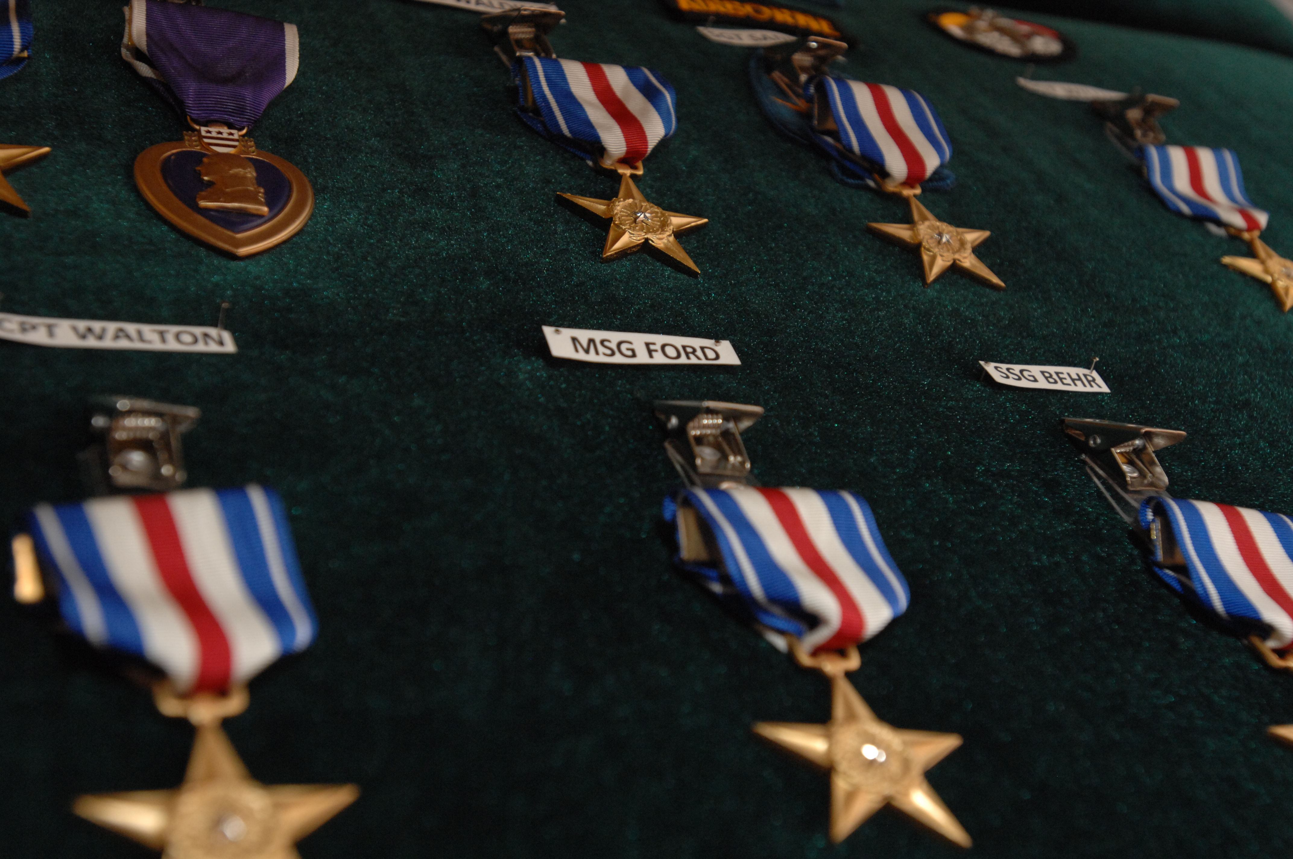 Nineteen 3rd Special Forces Group soldiers receive the Silver Star Medal during a Valor Awards Ceremony in the JFK Auditorium at Fort Bragg, N.C., Dec. 12, 2008. The Silver Star is the 3rd highest military decoration that can be awarded to any member of the United States Armed Forces. Photo by Cpl. Sean Harp, 3rd Special Forces Group (Airborne) See more about these true heroes at The story behind the Silver Stars